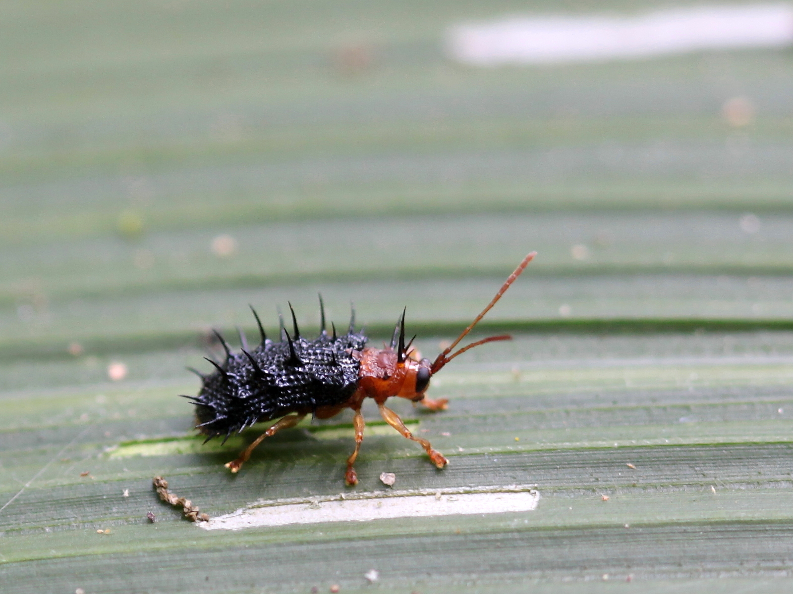 Kingdom: Animalia Phylum: Arthropoda Class: Insecta Order: Coleoptera Suborder: Polyphaga Infraorder: Superfamily: Chrysomeloidea Family: Chrysomelidae (leaf beetles, Blattkäfer) Subfamily: Cassidinae Tribus: Hispini GYLLENHAL, 1813 (Spiny Leaf Beetle, Stachelblattkäfer) possibly Genus: Dactylispa WEISE, 1897 ? [det. G. Bohne, 2012, based on this photo] more info: Indonesia, N-Sumatra, Aceh: Mt. Leuser NP (E-slope of Mt. Kemiri), ca. 800 m asl., 18.04.2009 IMG_5233